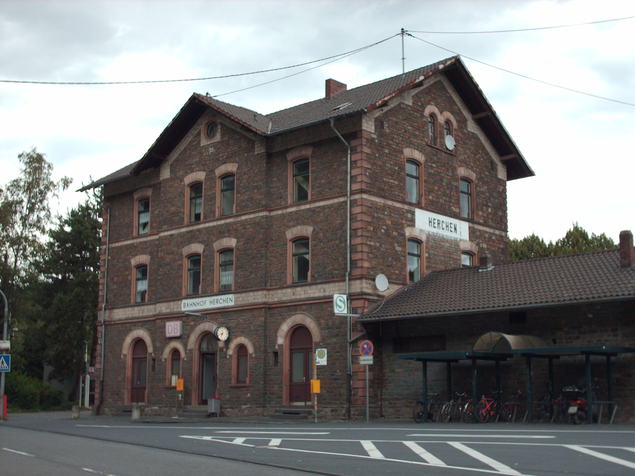 Herchen station, Windeck, Germany check usage